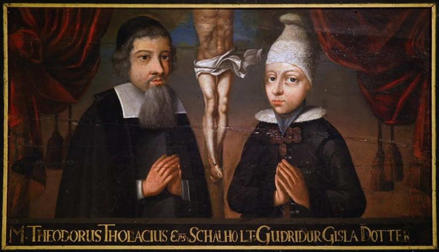 Thordur Thorlaksson, Icelandic bishop by unknown artist, ca. 1697